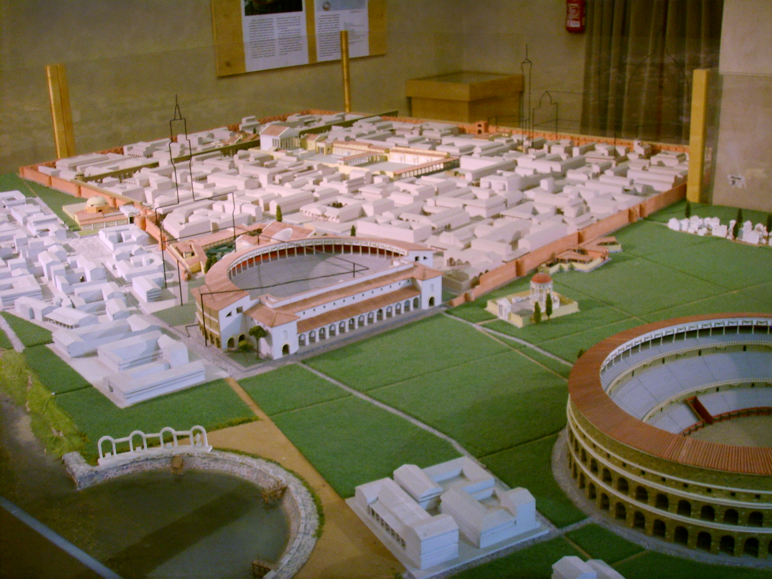 Museo Firenze com'era, archaeological room, florentia's reconstruction in Florence, italy